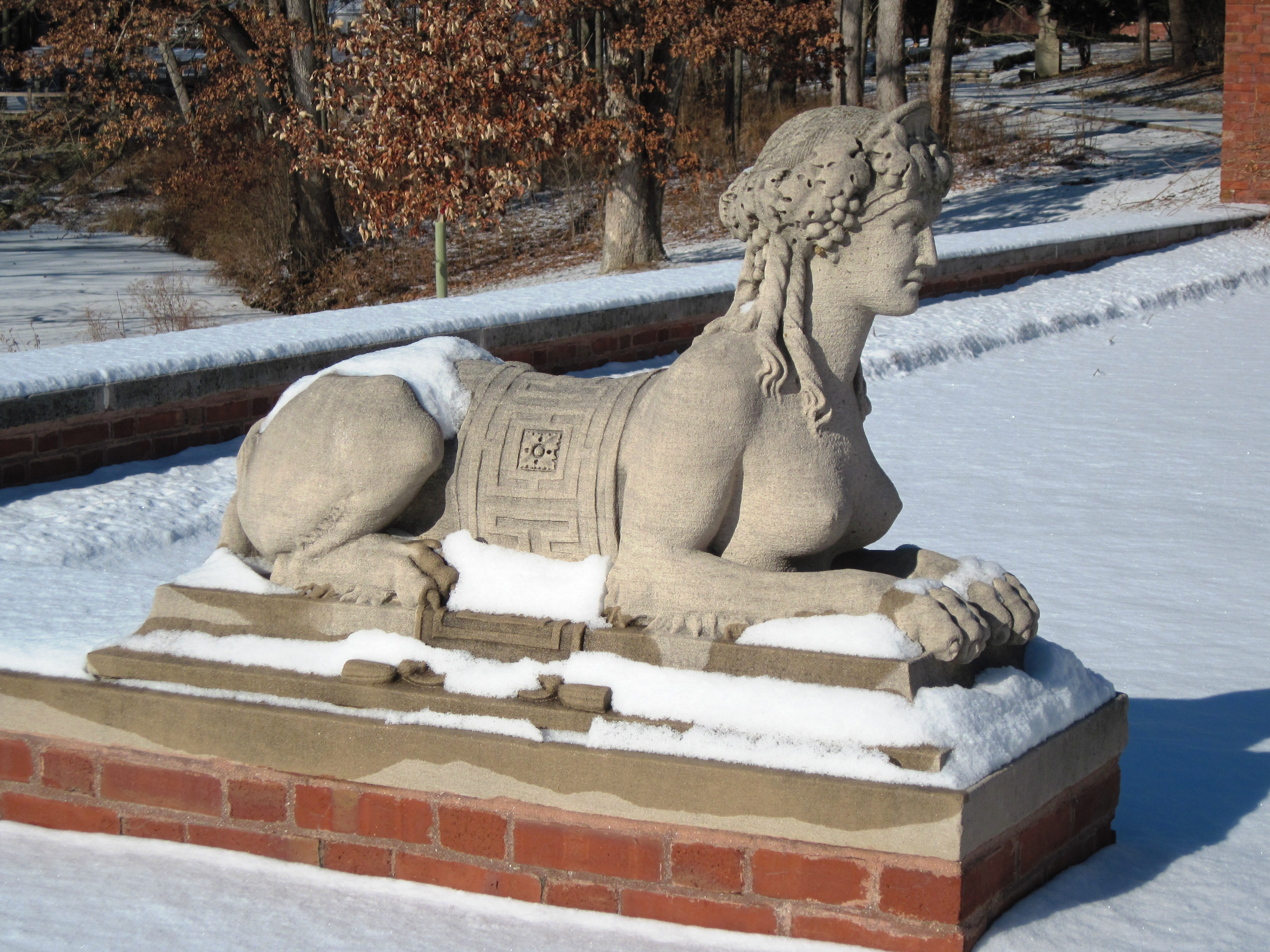 Robert Allerton Estate, 515 Old Timber Rd. Monticello